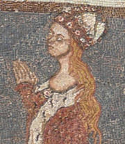 Elizabeth of Pomerania